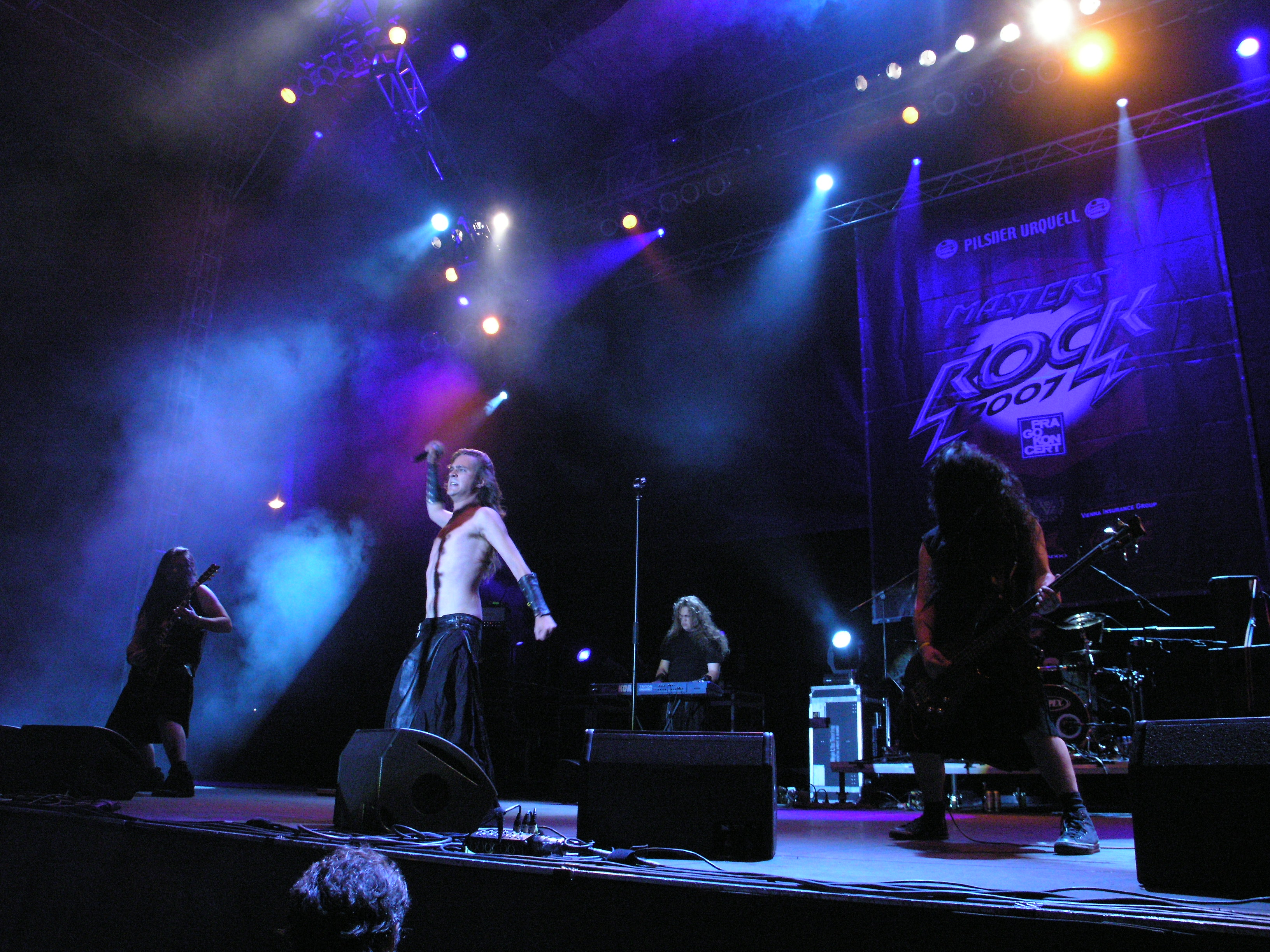 Music band Finntroll during Masters of Rock 2007 festival